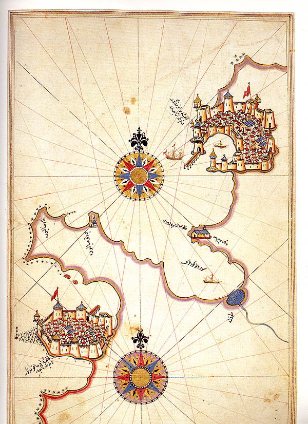 Settlements around Katapola Bay in the island of Amorgos in Greece on the Kitab-ı Bahriye (Book of Navigation) of Piri Reis.